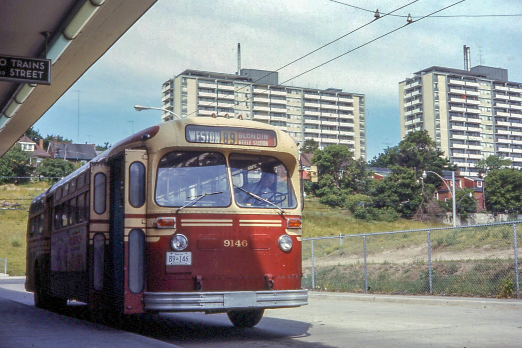 TTC 9146 at Keele Station loop, on the Bloor-Danforth subway line in Toronto, in service on route 89-Weston Road. No. 9146 was a 1947 Marmon-Herrington TC44 trolleybus, originally built for Cleveland, Ohio (where it was No. 1205), which the TTC acquired used in 1963. Toronto's last Marmon-Herringtons were retired in 1971. The trolleybus in this photo is on the north side of the bus loop, facing east.